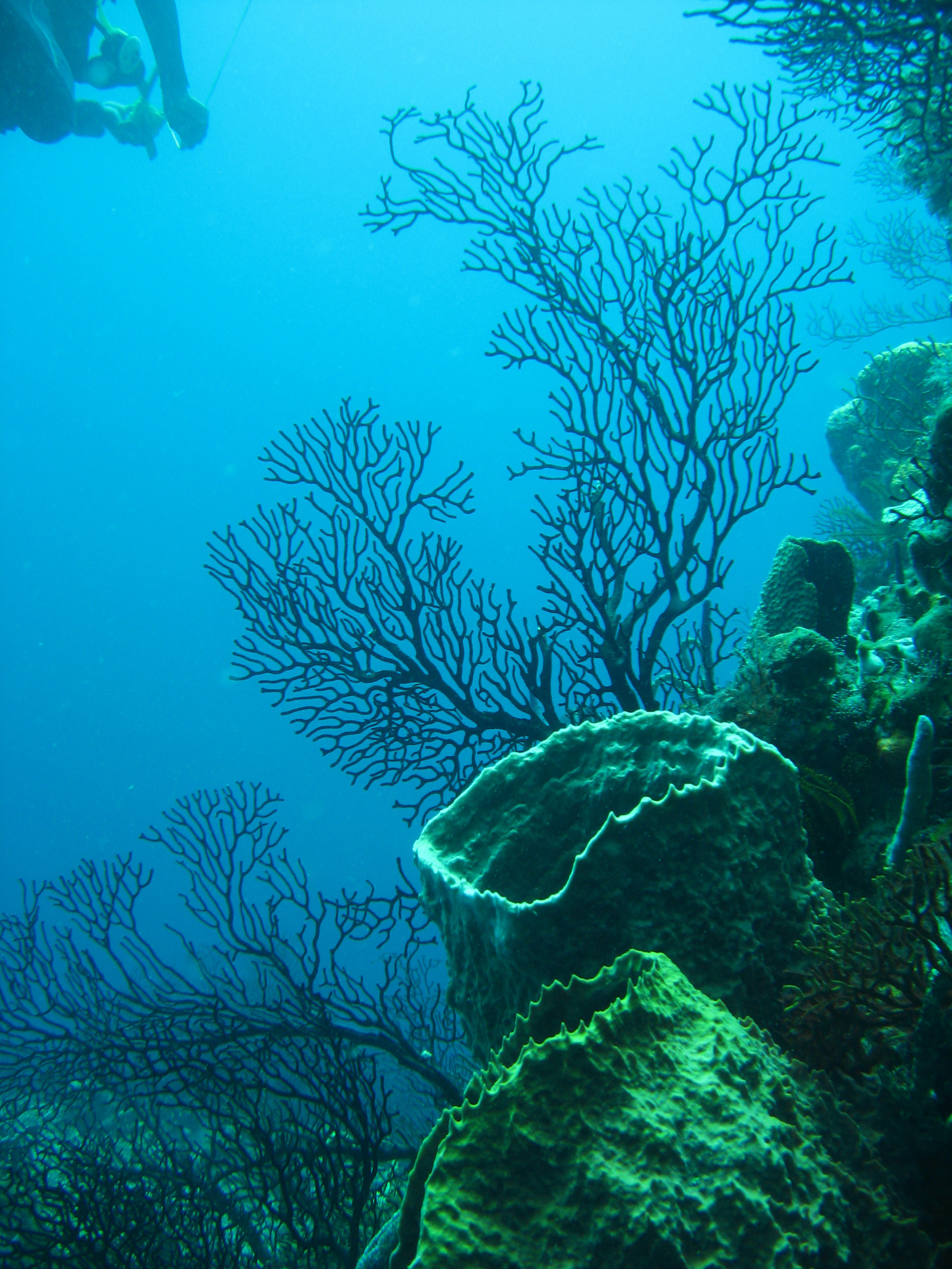 Photo by Lauretta Burke, World Resources Institute, 2007. Taken in the Soufriere area of St. Lucia. The Economic Valuation of Coral Reefs project aims to use valuation estimates to improve the management of coral reef ecosystems in the Caribbean through partnerships in St. Lucia, Trinidad and Tobago, and Belize.